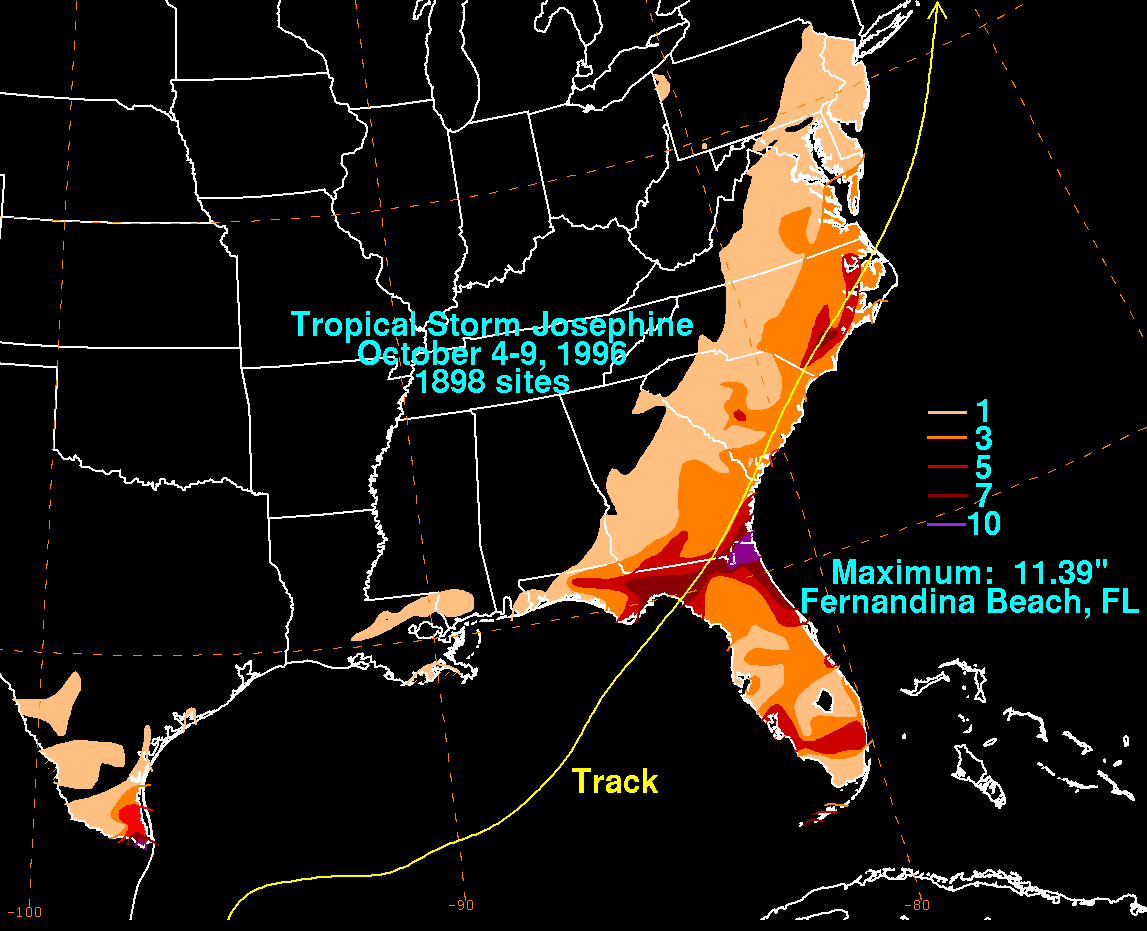 Rainfall produced by Tropical Storm Josephine during October 1996.